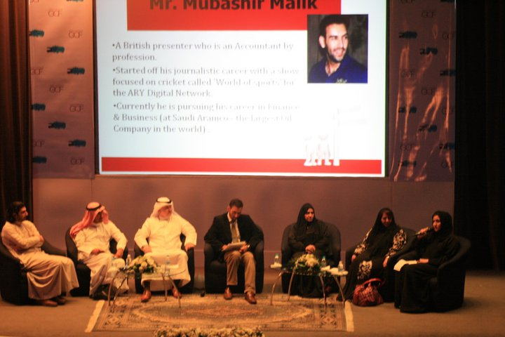 Mubashir hosting the Good Concept Forum, Jeddah 2011